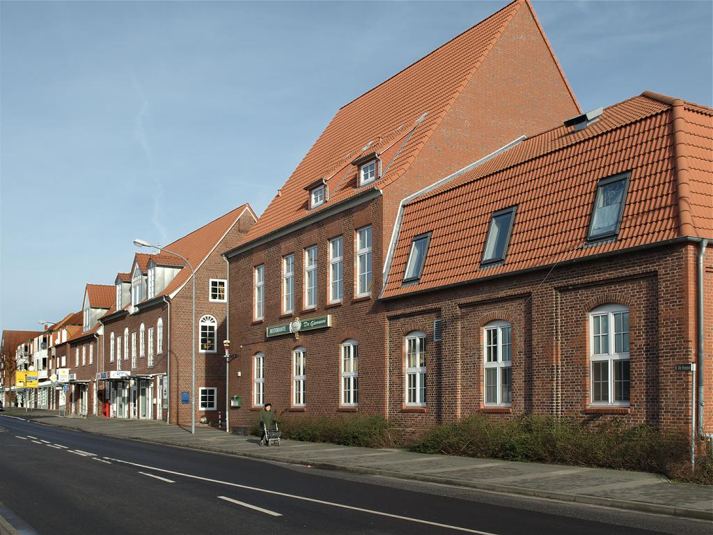 Tornesch (Germany), Esinger Str. 1 - Former laboratory building of the "Tornesch Distillery & Pressheef Factory" - Year of construction: 1914/15 - Photo 2008. - The distillery initially made alcohol from grains and potatoes, in the late 1920s, they developed a method for Sprite production from wood waste, which was used until the mid-1950s. 1993 was the closure of the work. The pictured buildings have been renovated with funds from the urban development subsidy. They now contain a restaurant and office space. Object location53° 41′ 45.23″ N, 9° 42′ 50.34″ E